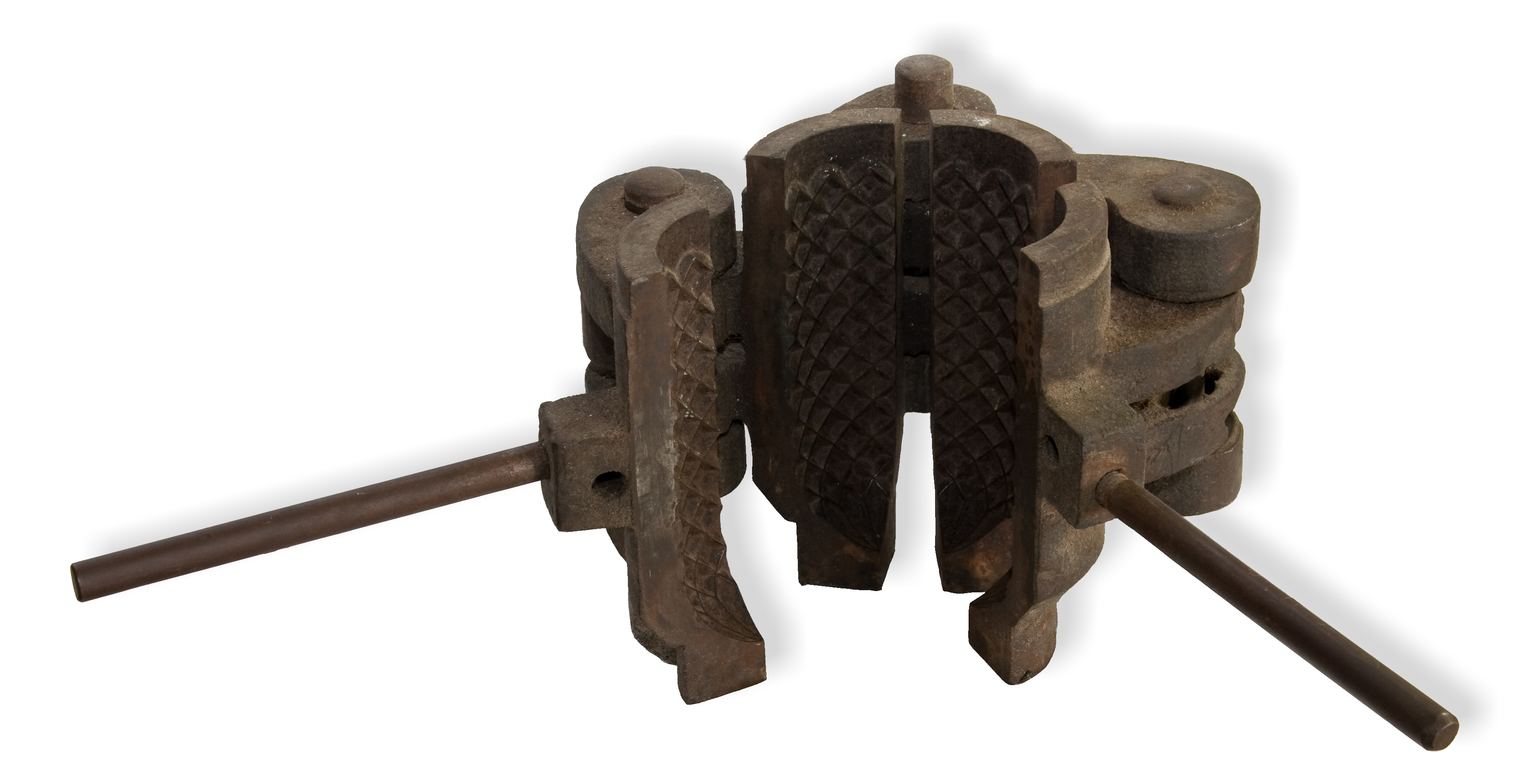 Acquiring scientific and specialized pictures grant